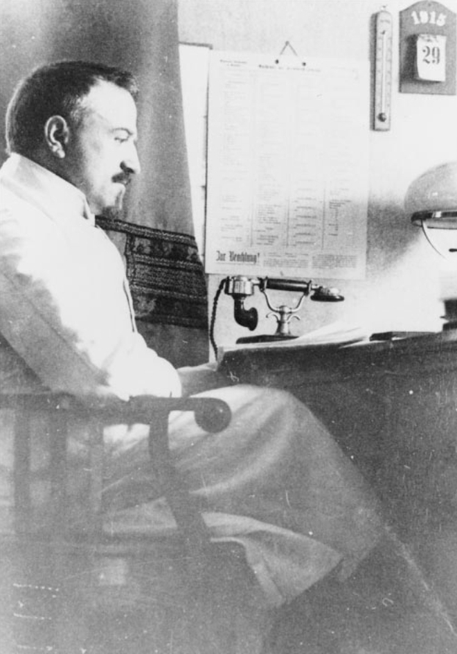 Theodor Fahr (1877–1945) as Director of the Institute of Pathology at the University of Hamburg (Source: Historical Archives of the University Hospital Hamburg-Eppendorf, Institute of Medical History, University of Hamburg).